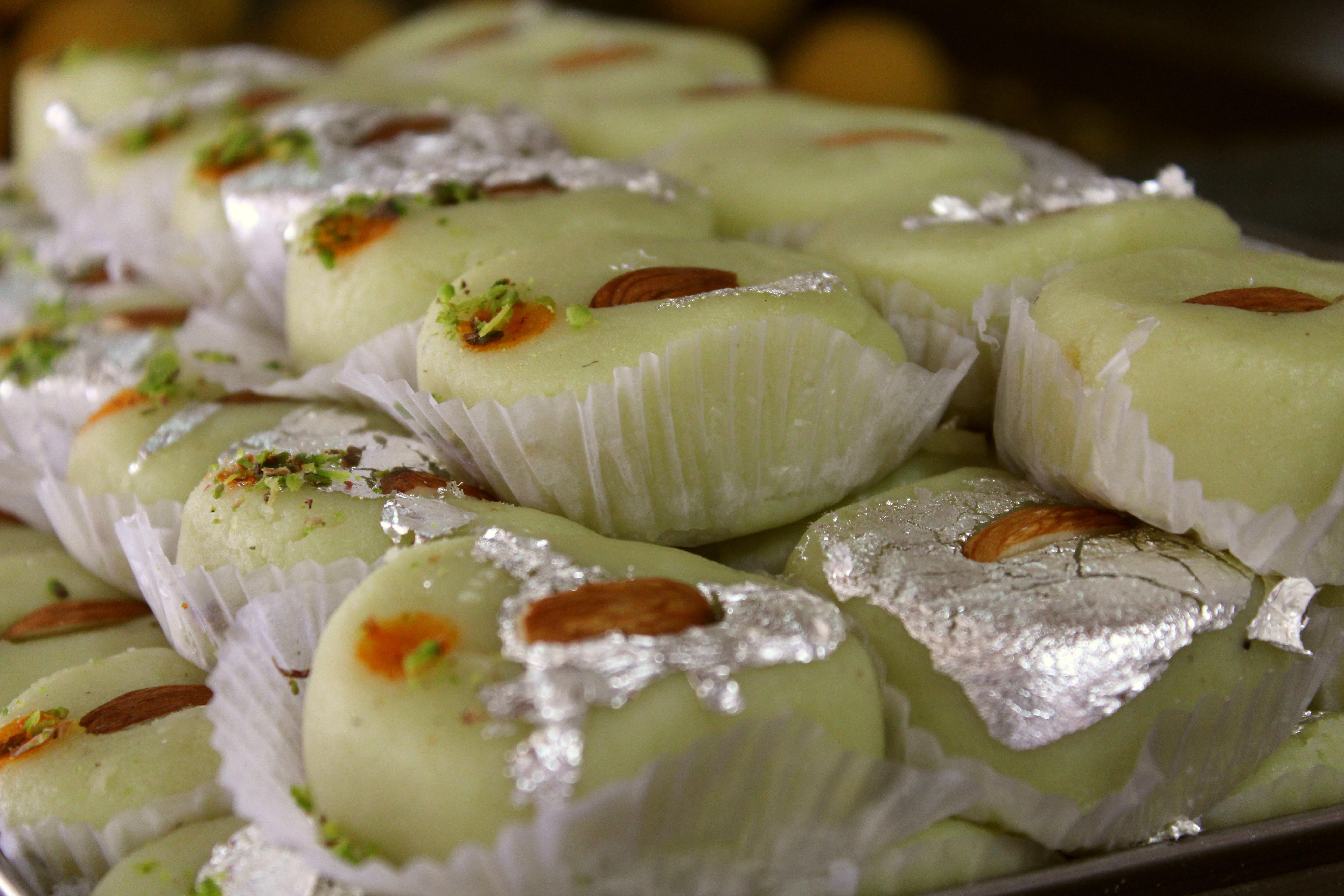 the festival sweet dish..